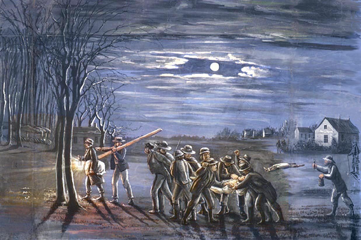 "Tarring and Feathering the Prophet" by C.C.A. Christensen. The title refers to the tarring and feathering of Joseph Smith.